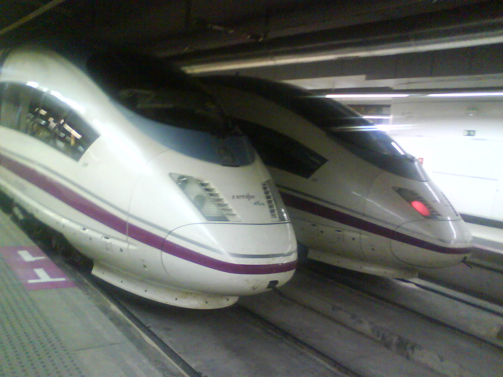 Siemens Velaro at Barcelona-Sants AVE station. They run at 301 km/h in Barcelona-Madrid line (Ticket price around 120€). Unmodified trains of this class achieved world record in 2006.